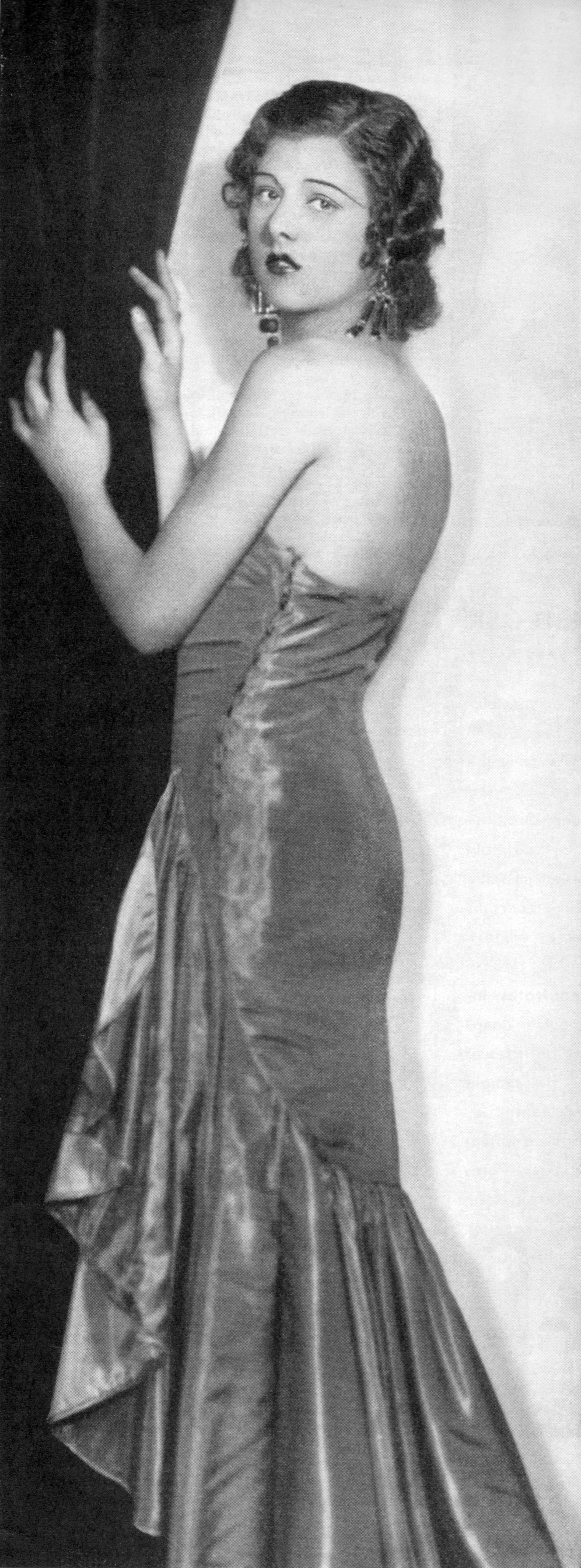 Photograph of Libby Holman Subtle advertisement for Lux Toilet Soap